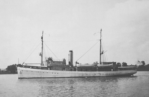 United States Coast and Geodetic Survey survey ship Pioneer